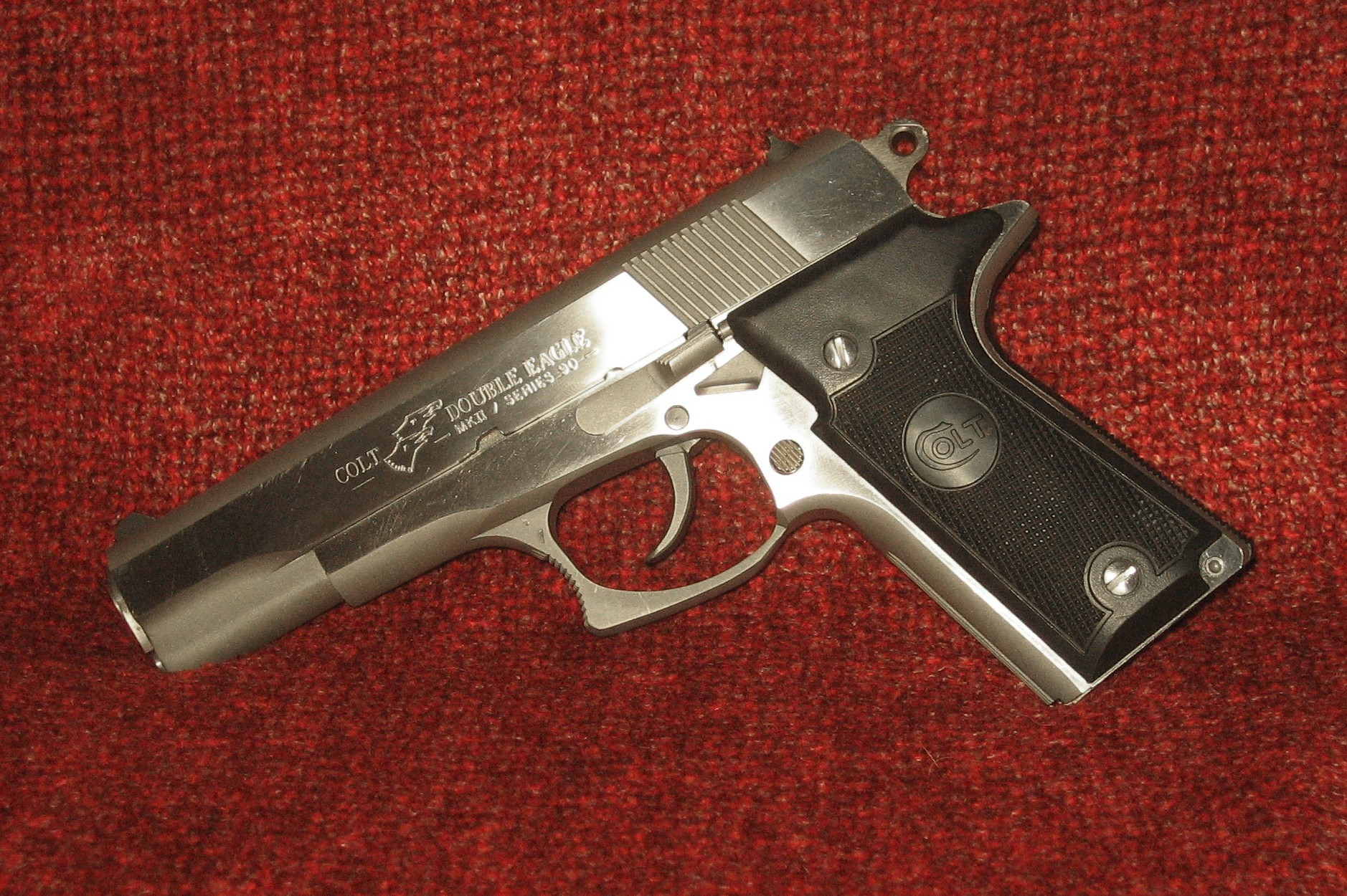 My Colt Double Eagle. The first pistol I ever owned.